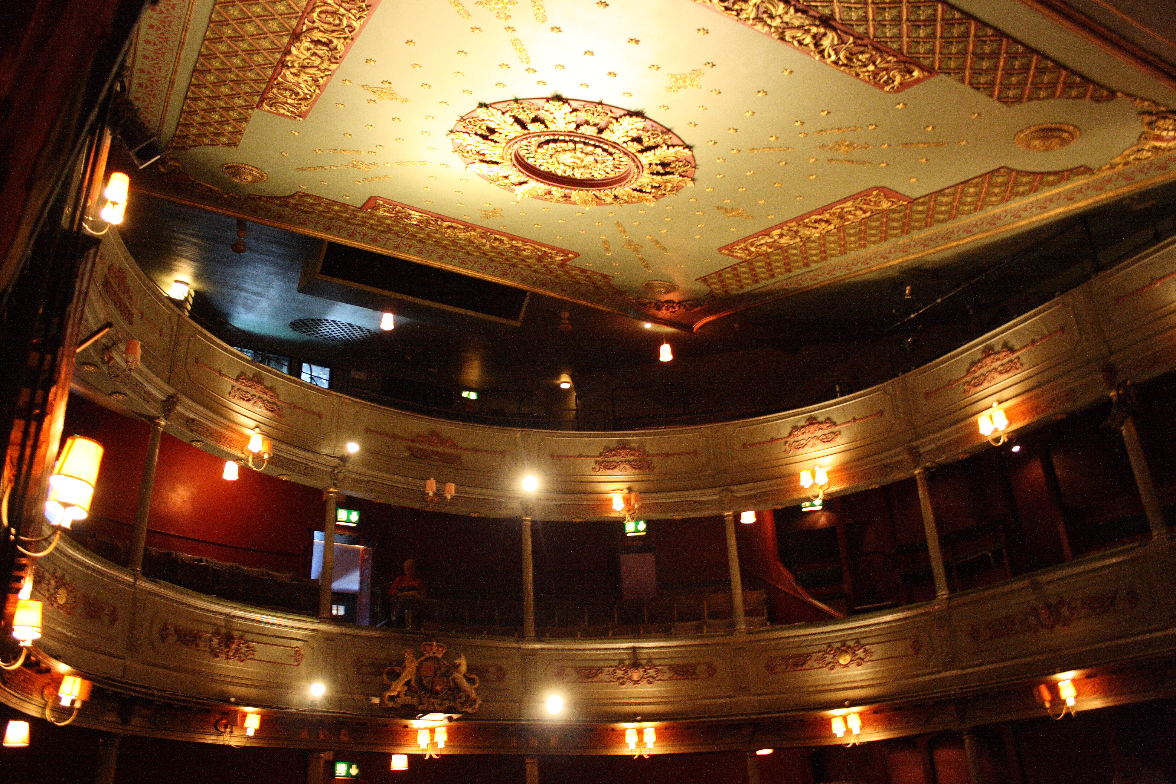 The gallery and upper circle of the 1766 Theatre Royal in Bristol.